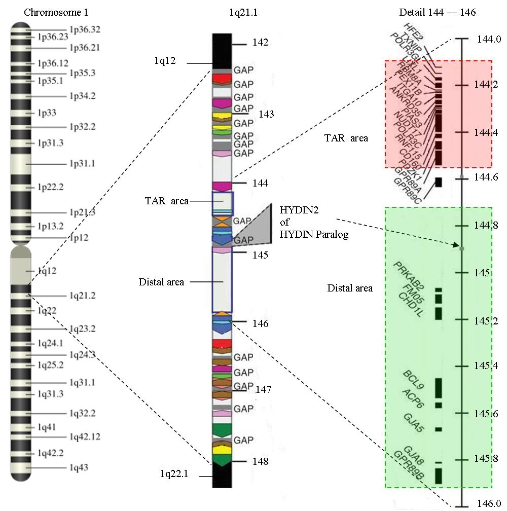 Relation between chromosome 1 and 1q21.1, the TAR syndrome and 1q21.1 deletion / duplication syndrome